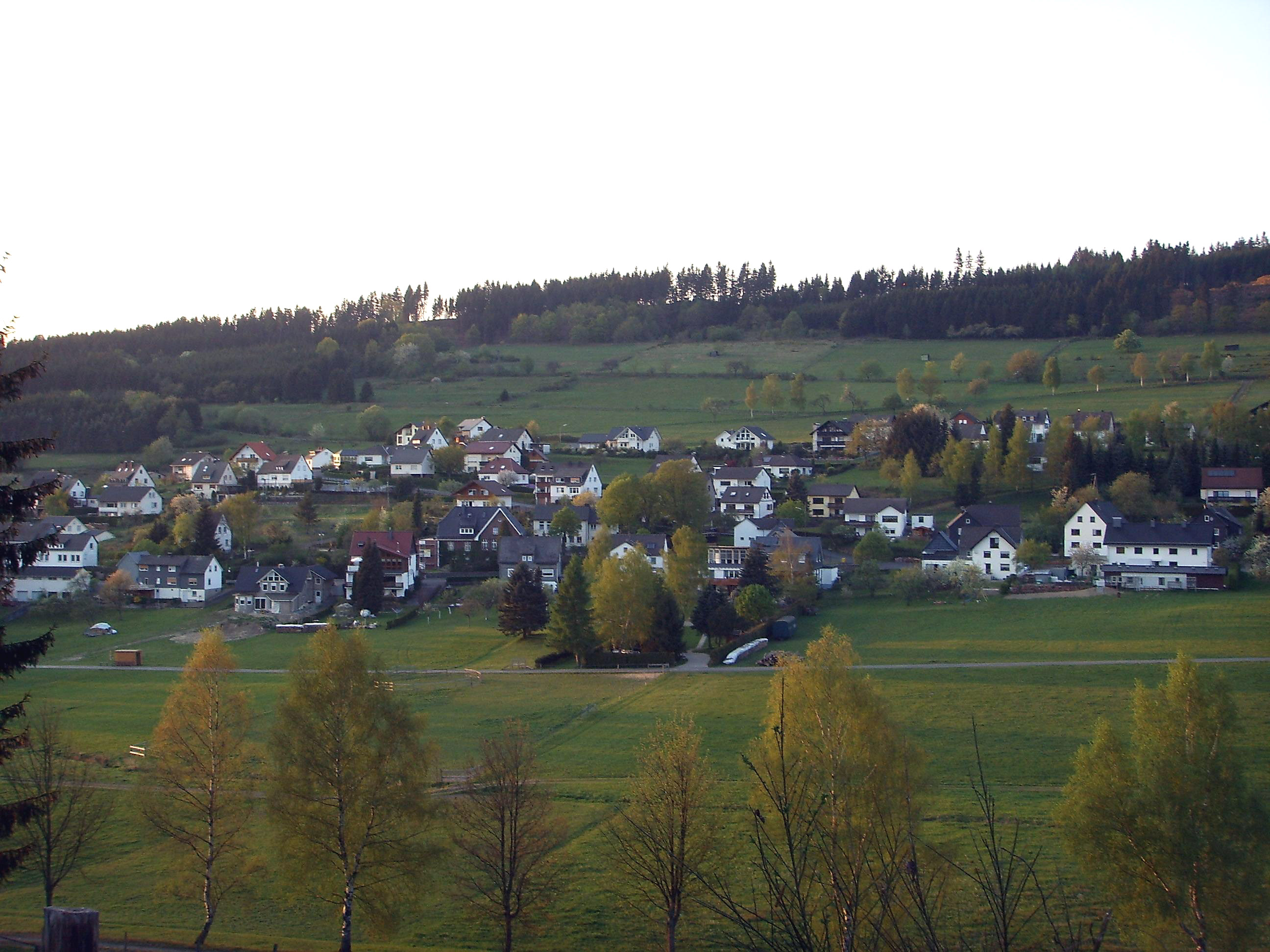 Hesselbach (Germany) of the south side by the sunset.